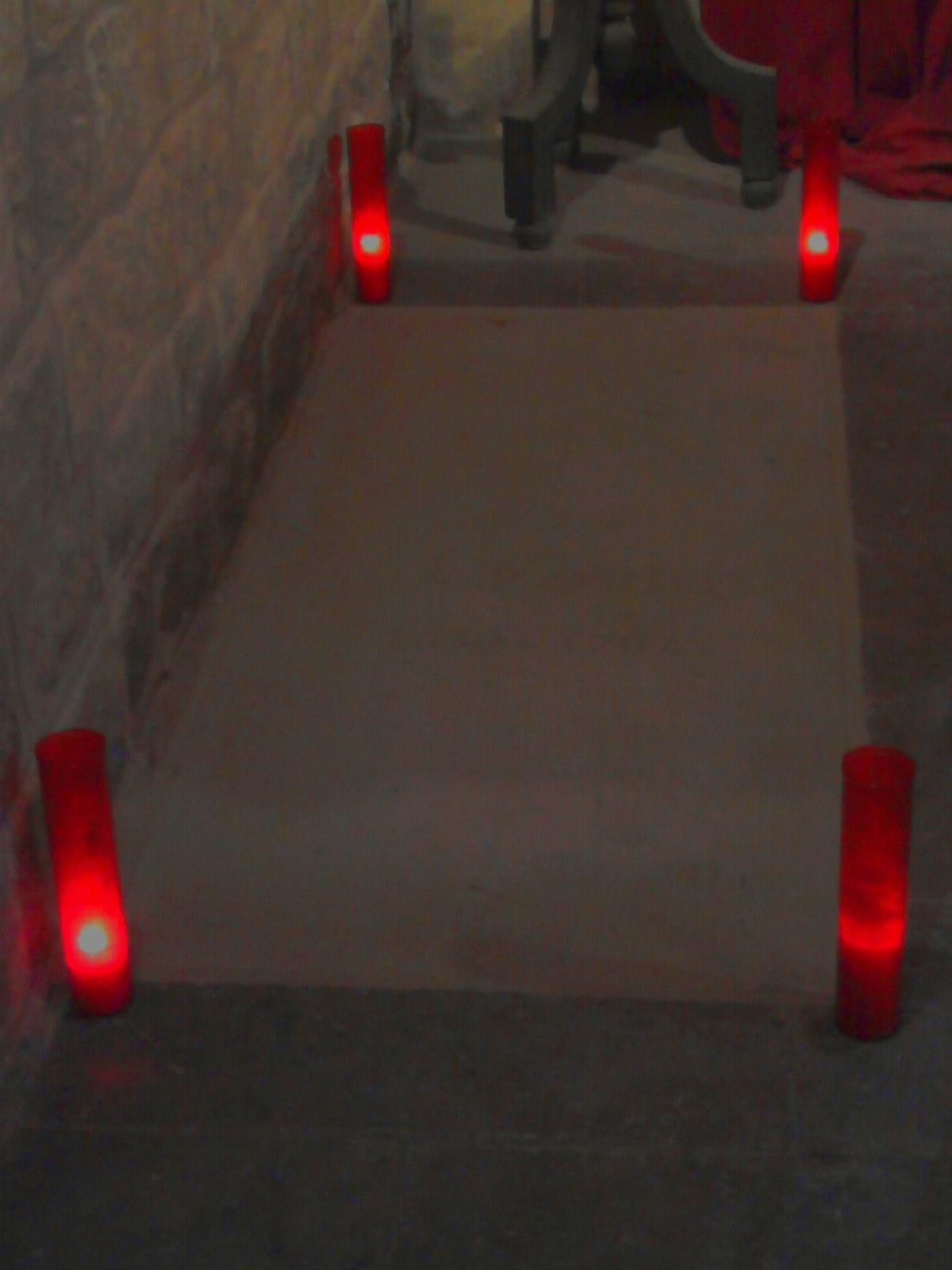 grave of san josep in san maria de pi church.